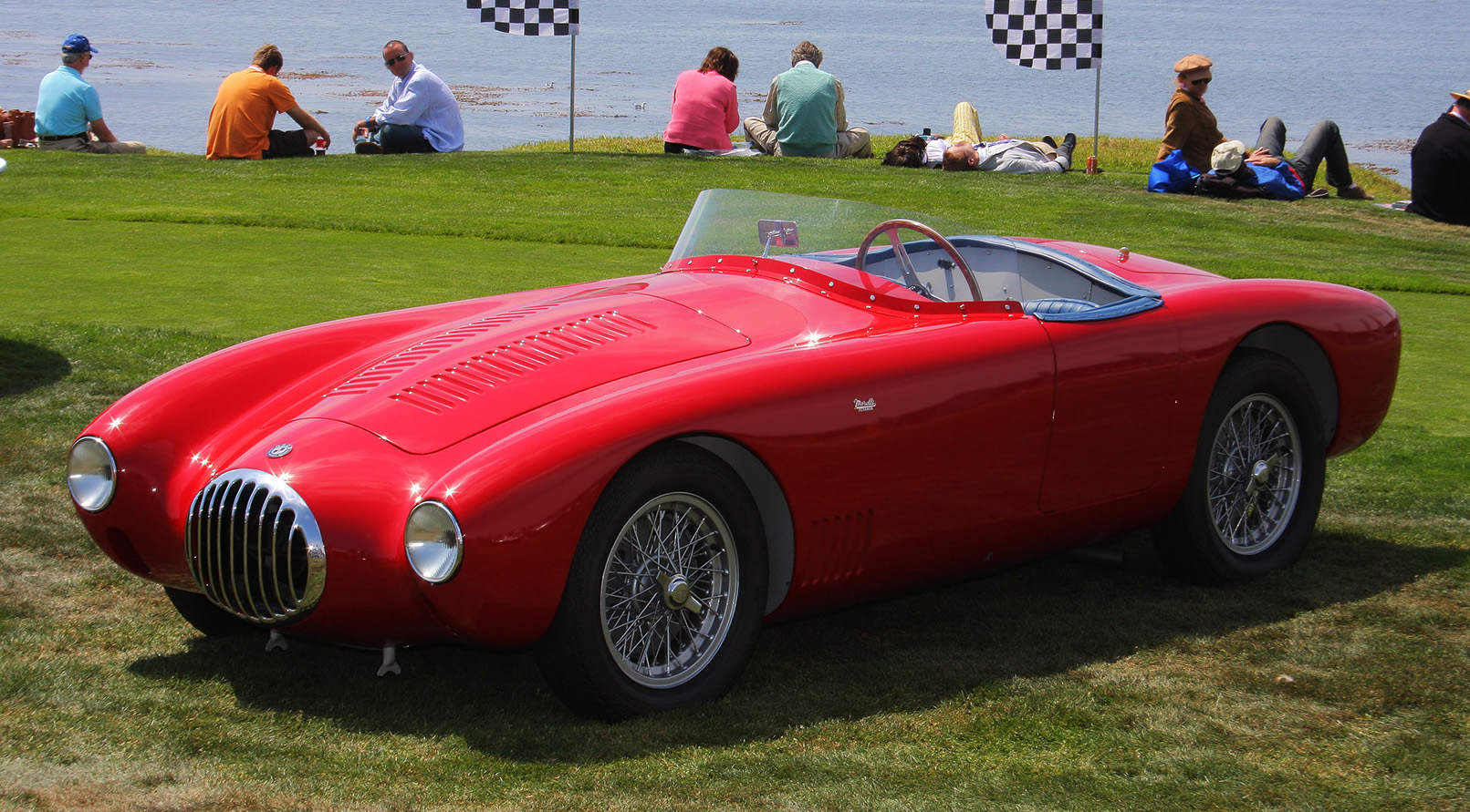 1955 Osca MT4 Morelli Spider at Pebble Beach Concours d'Elegance, Aug 16, 2009. Owned by Craig Davis[1]